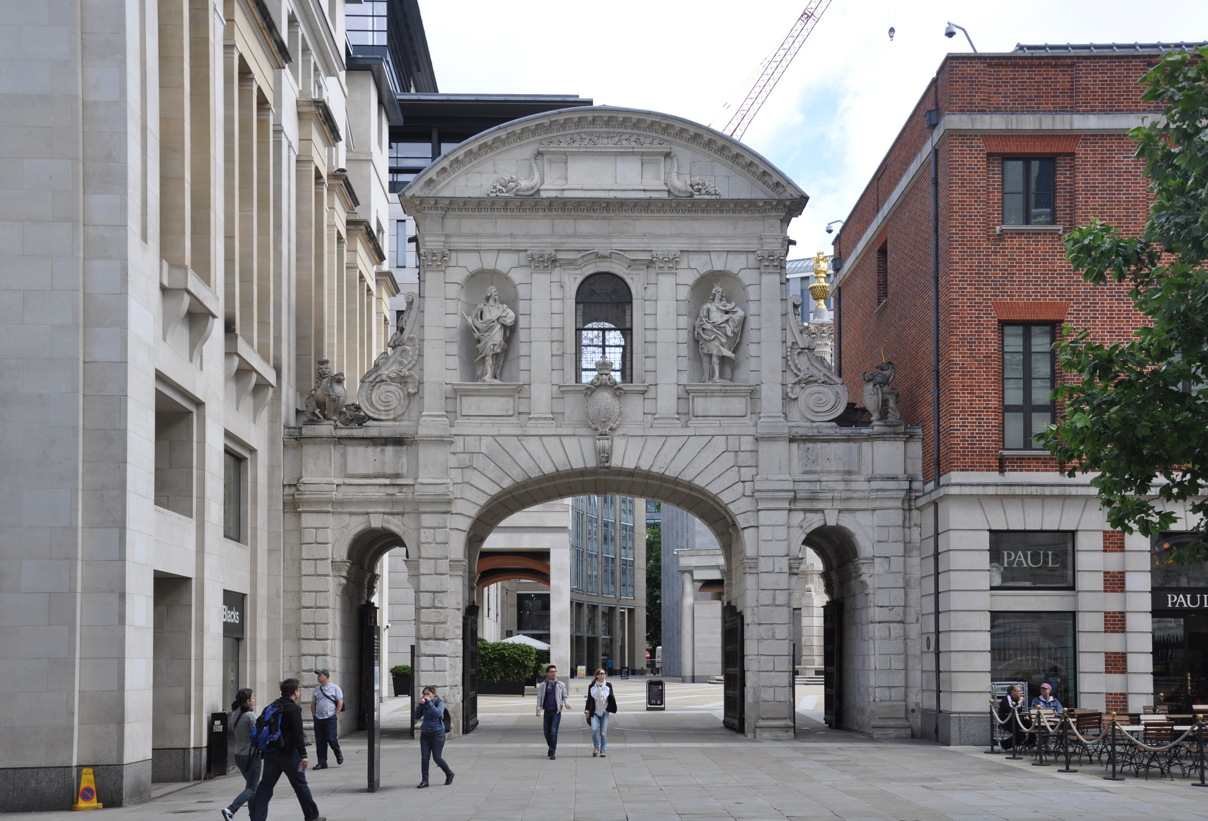 London, Temple Bar Gate